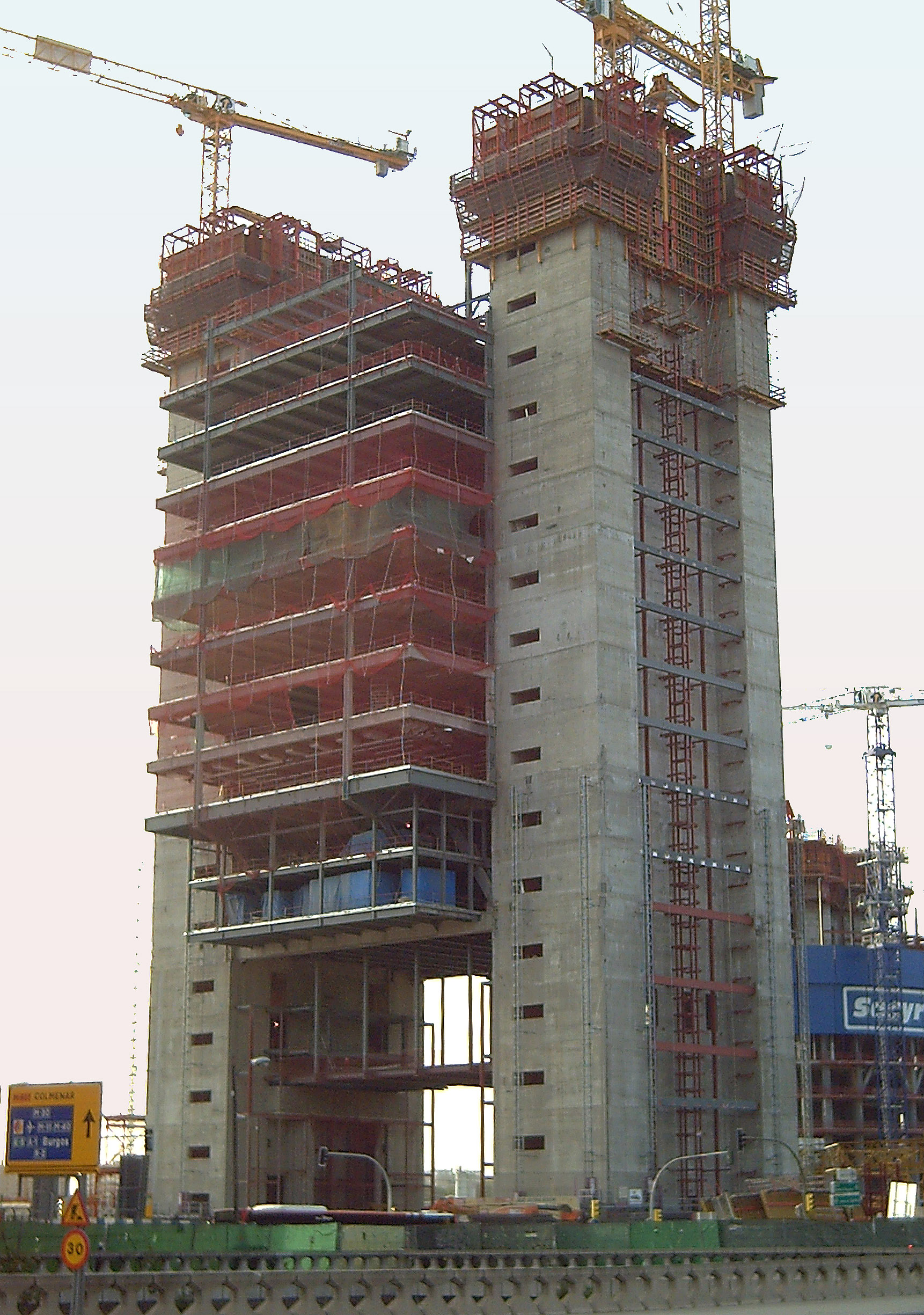 Torre Caja Madrid (formerly named Torre Repsol), in Cuatro Torres Business Area, Madrid (Spain). Architects: Foster and Partners.